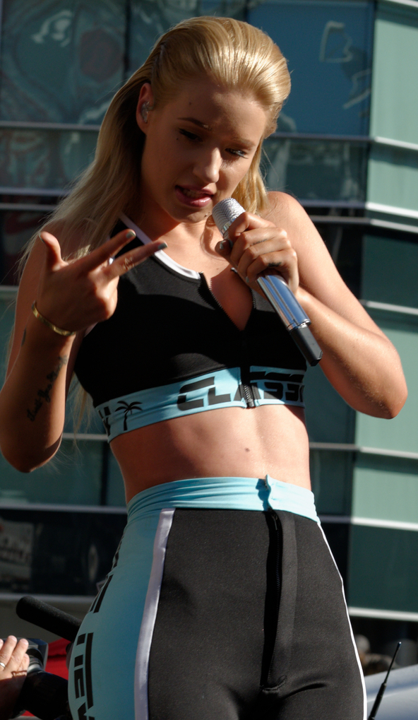 Iggy Azalea performing live at the ESPYs Experience (the ESPY Awards Pre-Show) on Nokia Plaza at L.A. Live in downtown Los Angeles California on Wednesday July 16th, 2014.